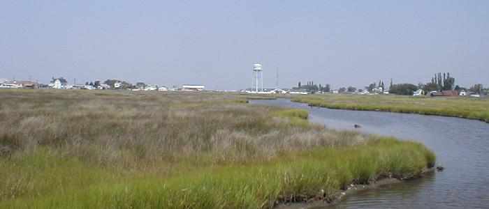 Picture taken by Elaine Meil, Spring 2006, of Tangier, Virginia